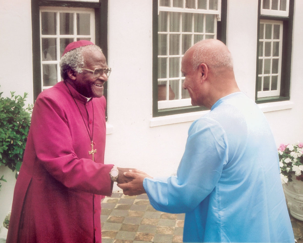 Archbishop Desmond Tutu and Sri Chinmoy